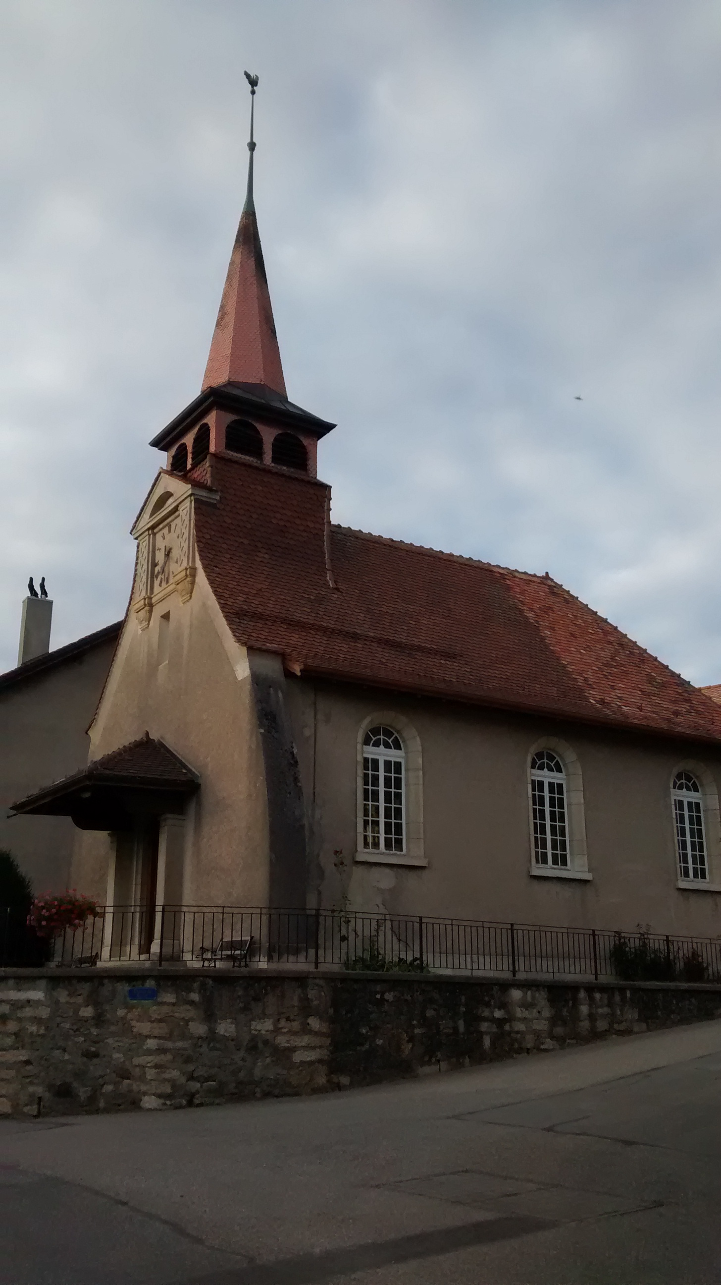 Chavannes-le-Veyron Temple